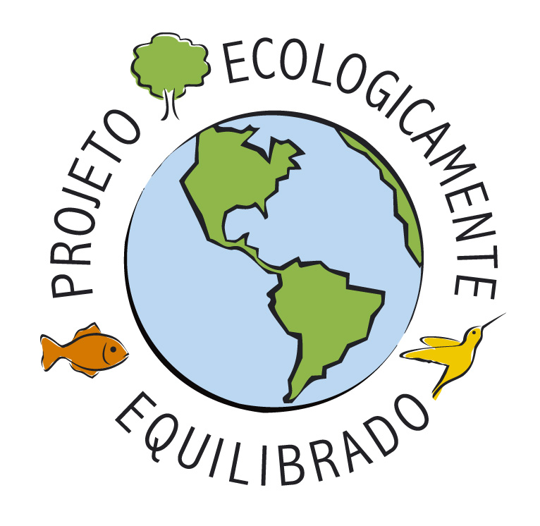 Logo do Projeto Ecologicamente Equilibrado